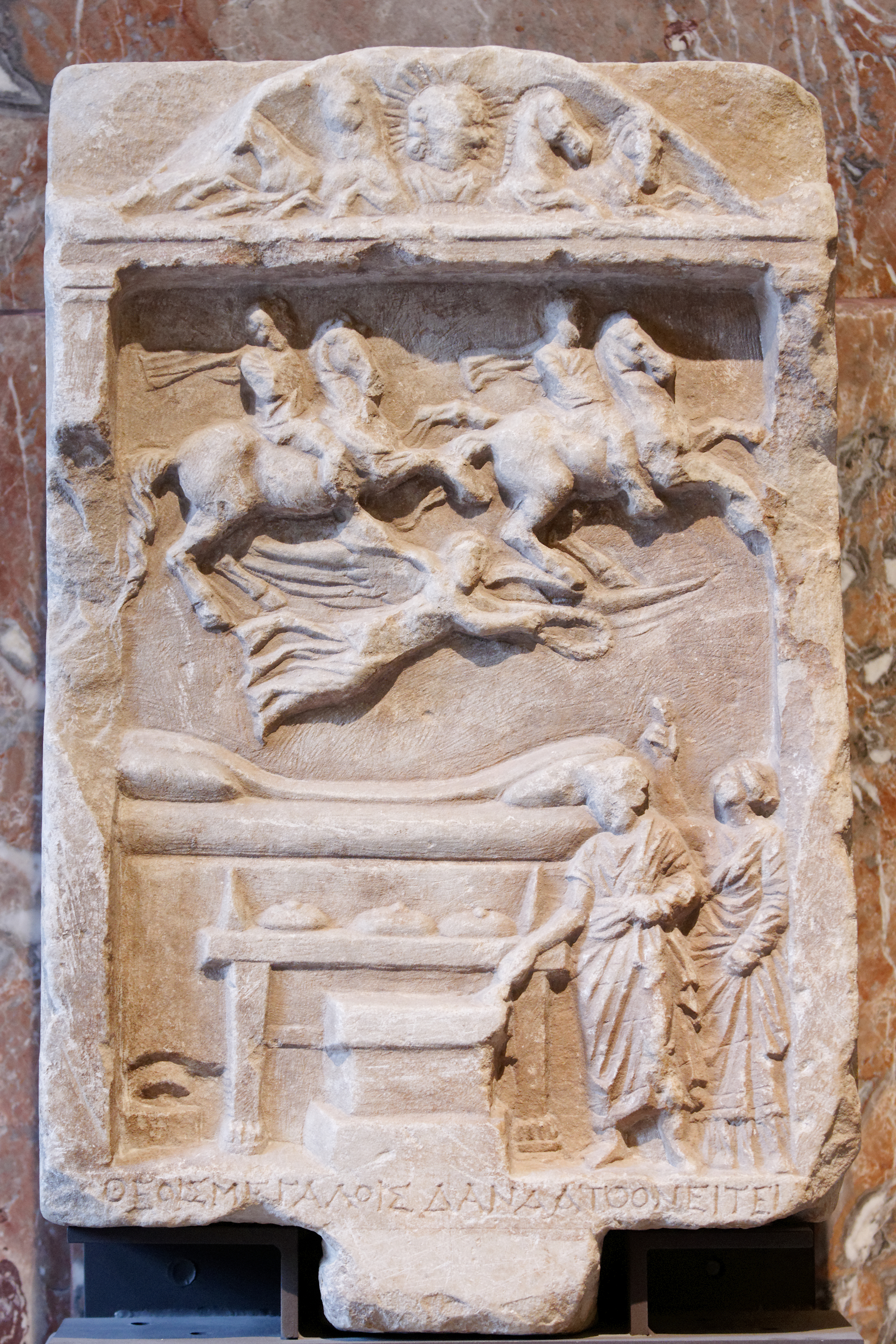 Apparition of the Dioscuri at a banquet. Upper tier: the Dioscuri as riders wearing a short chiton and a chlamys, galloping above a winged Victory; lower tier: banqueting couch (kline), rectangular table with cakes and altar with a man laying an offering and a woman raising an object towards the sky. Inscription: ‘To the Great Gods, Danaa daughter of Aphtonetos (Atthoneiteia)’.